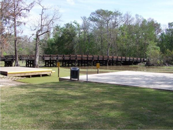 This park is located at the foot of Lorrain Bridge in Hayes, Louisiana. Because of its unique design and construction, Lorrain Bridge is in the National Register of Historical Sites. The site was acquired in 1894 and the bridge was constructed around 1895 as a wooden type draw bridge. In 1920, it was re-constructed, still as a wooden draw type bridge. It was damaged in 1950, repaired in 1951, and in 1955 the draw bridge portion was disabled. The bridge remained open and connected Calcasieu Parish and Jeff Davis Parish until it was closed to traffic in March 1998. Due to joint efforts of the Lorrain Bridge Association, the Calcasieu Parish Police Jury and Jeff Davis Police Jury, the bridge was rebuilt and opened to traffic on July 1, 2004. Lorrain Park has a public boat launch allowing access into the Lacassine Bayou. Two wharves are available at the launch site. A fish cleaning area is also provided for the convenience of park users. This park has tent camp sites and nine (9) RV camper sites with electricity available. A dump station is available for RV campers.